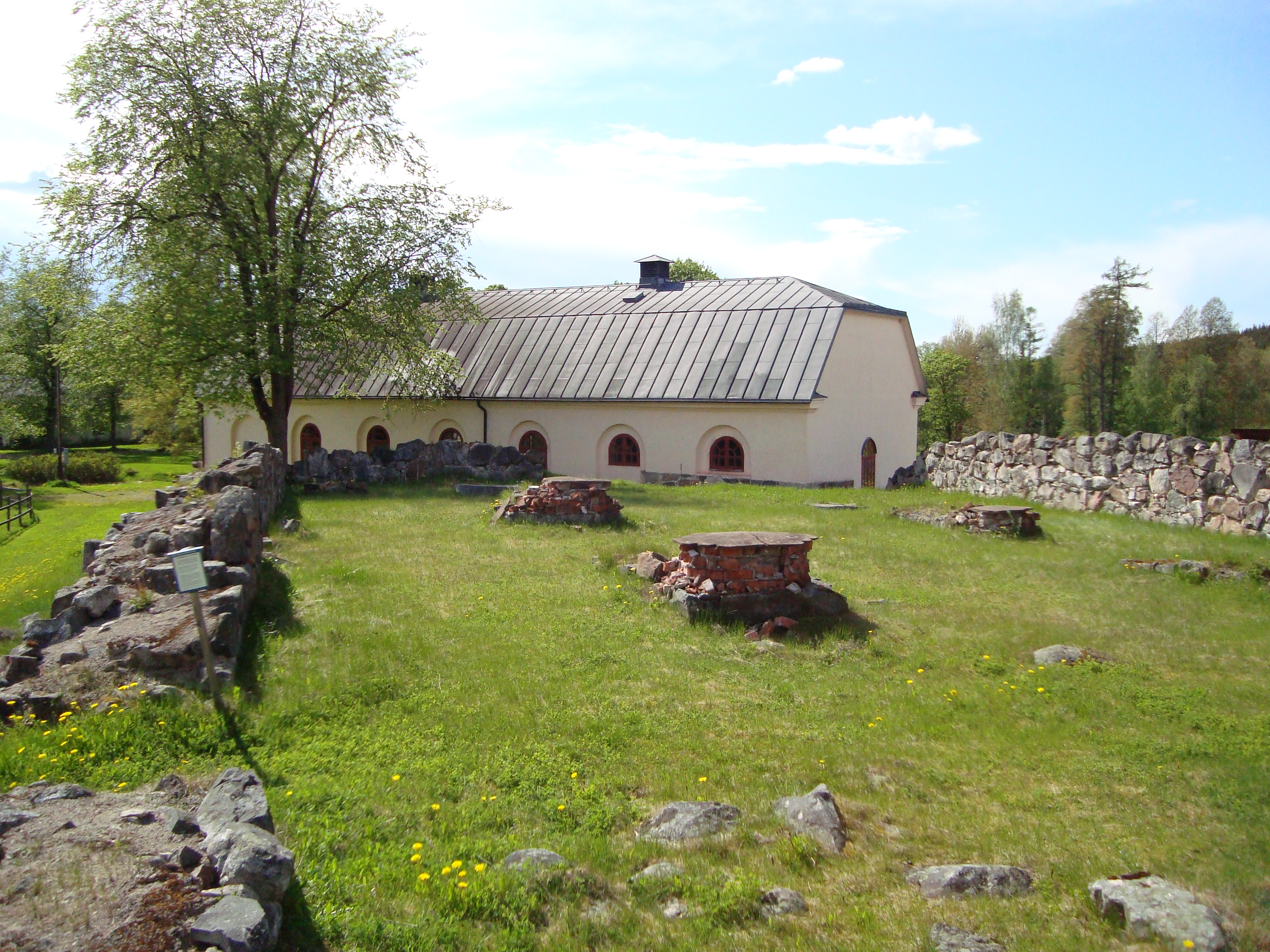 Ruins of Gudsberga monastery, Kloster, Hedemora municipality, Sweden